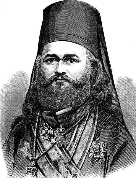 Ilarion Roganović